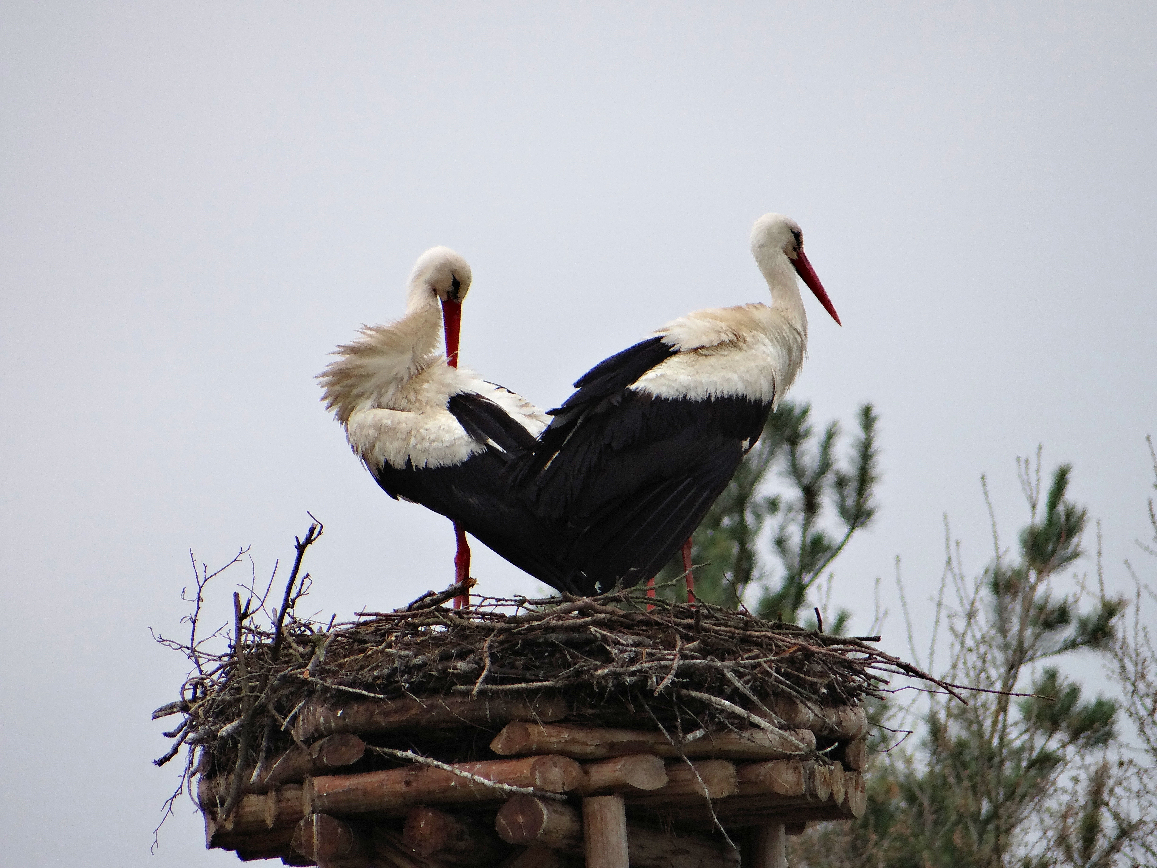 Pentowo - European stork village